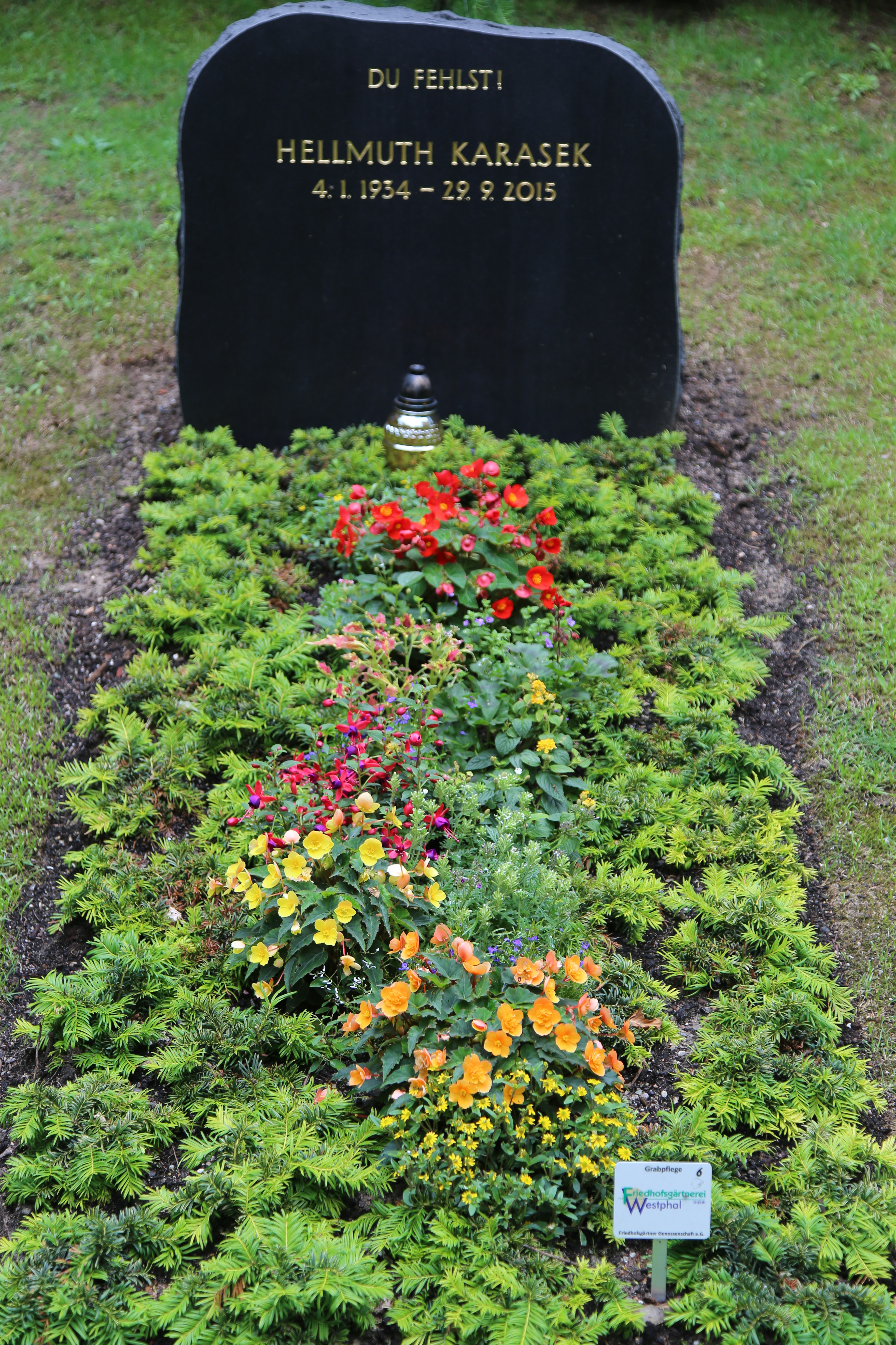 Grave of Hellmuth Karasek in the "poet's corner" of Friedhof Ohlsdorf in Hamburg